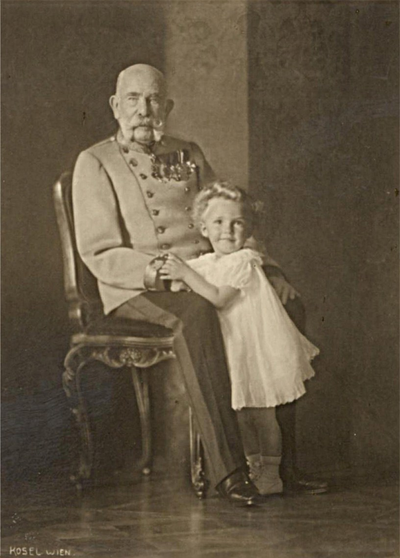 Emperor Franz Joseph I of Austria, King of Hungary, and his grand nephew and heir to the throne Archduke Otto von Habsburg.